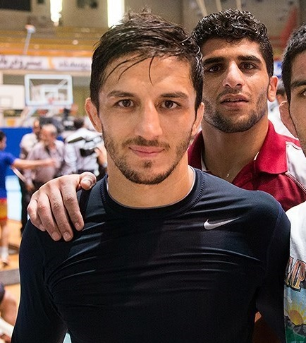 Hamid Sourian